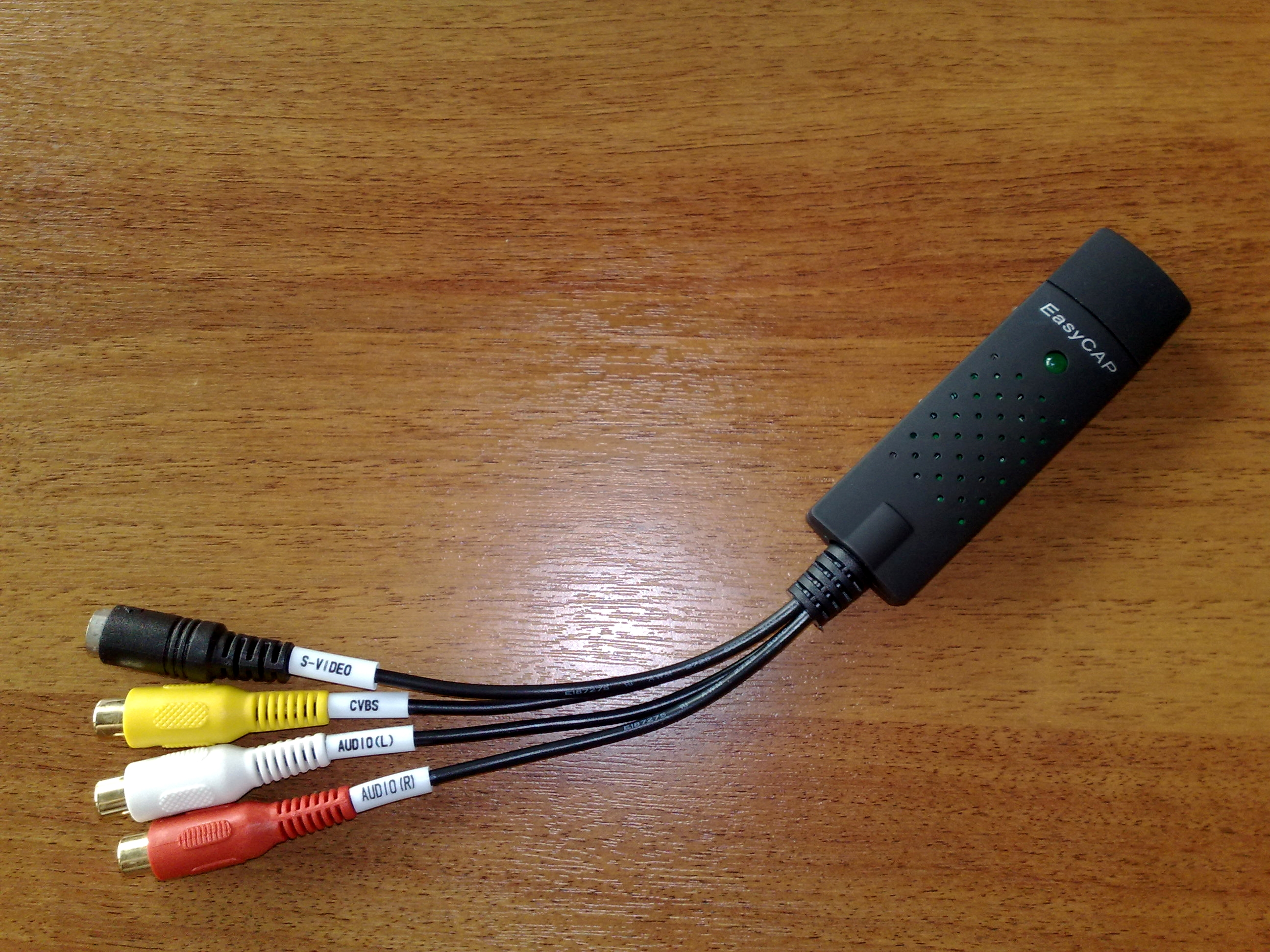 EasyCap DC60+ v3.1C.